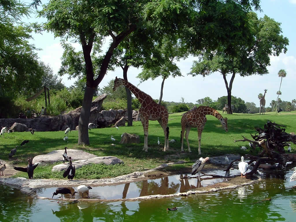 A view from Busch Gardens Africa's "Edge of Africa" walk-through attraction.